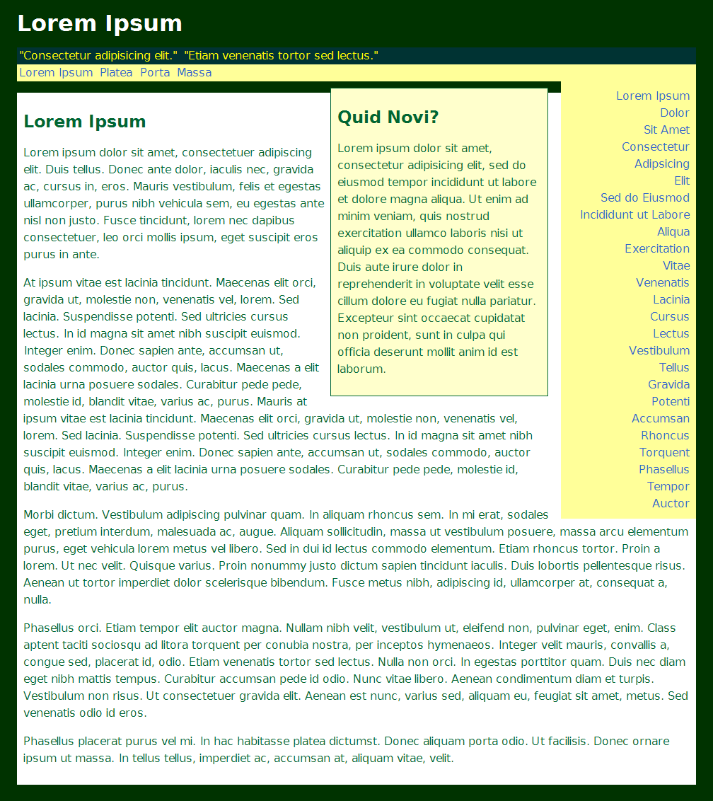 Using lorem ipsum to focus attention on graphic elements in a website design proposal.